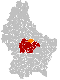 Own edit of Kanton MerschLocatie.png